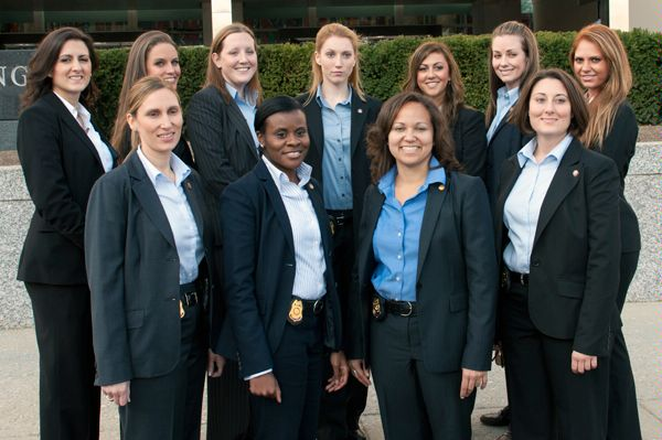 November 23, 2010: Eleven of the twelve female special agents serving on Diplomatic Security's protective detail for U.S. Secretary of State Hillary Rodham Clinton appear outside the diplomatic entrance to the U.S. Department of State in Washington, D.C. This is the largest group of women ever to serve on the DS security detail for a U.S. Secretary of State.